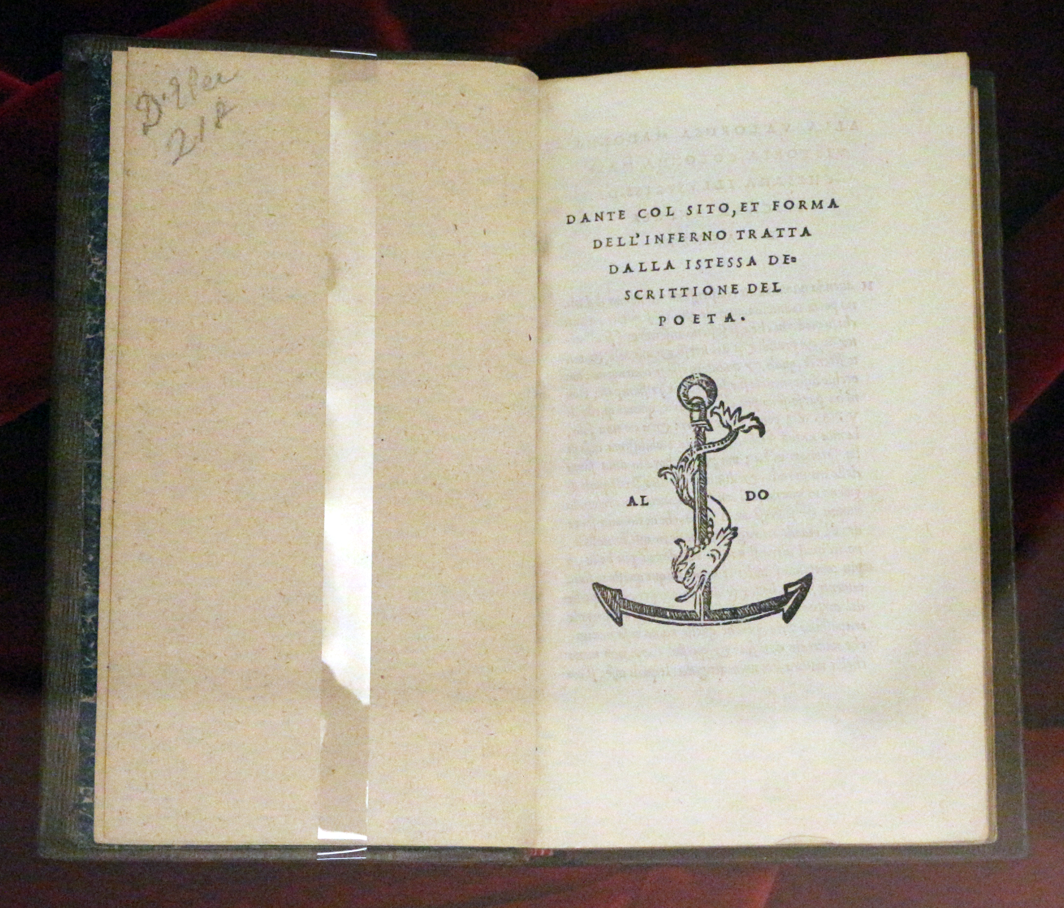 Collections of the Biblioteca Medicea Laurenziana